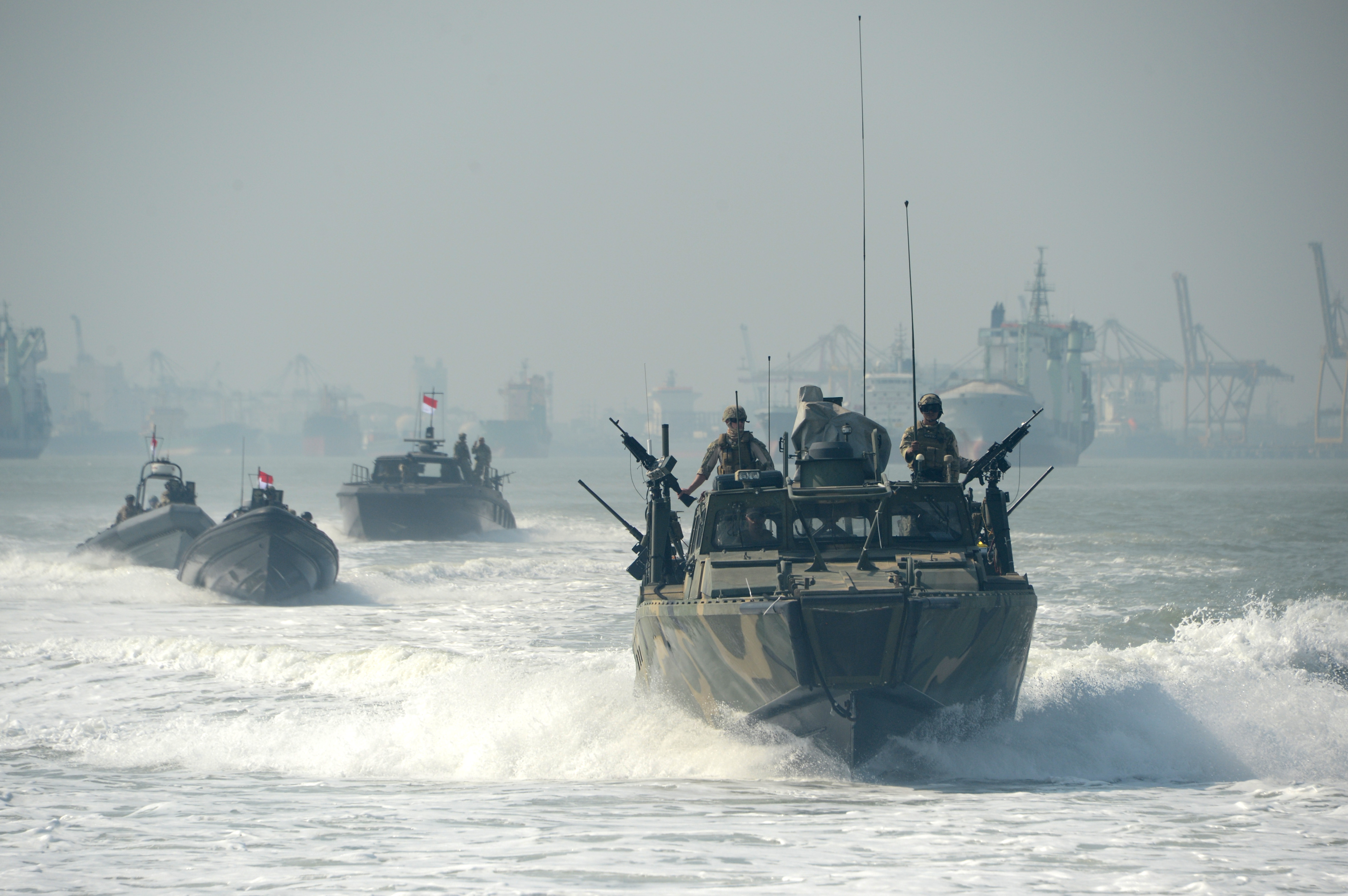 SURABAYA, Indonesia (Aug. 5, 2015) U.S. Navy Sailors assigned to Coastal Riverine Squadron (CRS) 3 and Indonesian Kopaska naval special forces members practice patrol formations during Cooperation Afloat Readiness and Training (CARAT) Indonesia 2015. In its 21st year, CARAT is an annual, bilateral exercise series with the U.S. Navy, U.S. Marine Corps and the armed forces of nine partner nations including, Bangladesh, Brunei, Cambodia, Indonesia, Malaysia, the Philippines, Singapore, Thailand and Timor-Leste. (U.S. Navy photo by Mass Communication Specialist 1st Class Joshua Scott/Released) 150805-N-FN215-206 Join the conversation: navylive.dodlive.mil